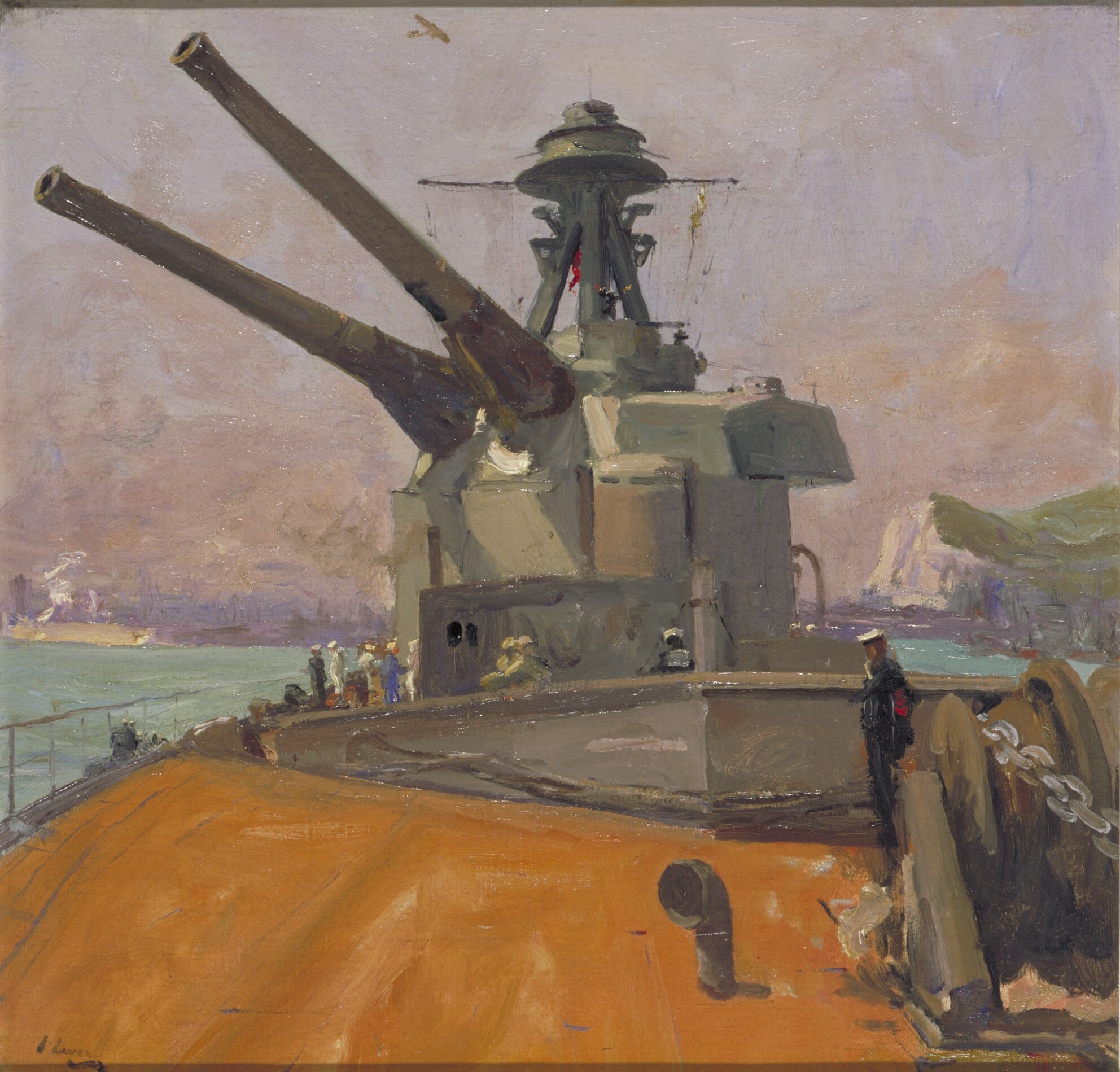 The Guns. HMS Terror, 1918 image: A view across the deck of a monitor showing the main 15-inch guns raised in elevation. Dover harbour lies in the background with the white cliffs visible to the right.